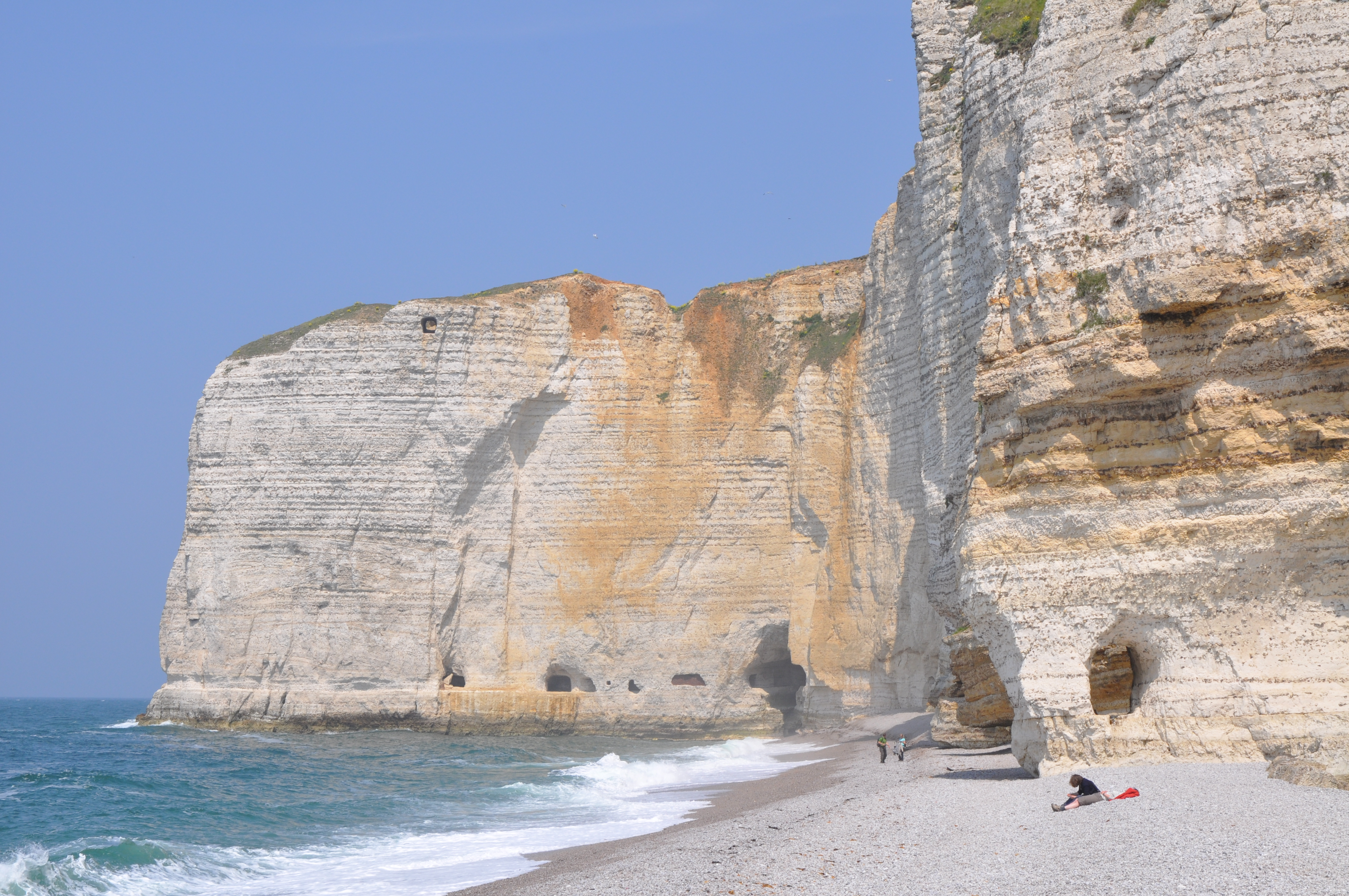 Beach of Le Tilleul loooking towards Etretat (France,Normandy)